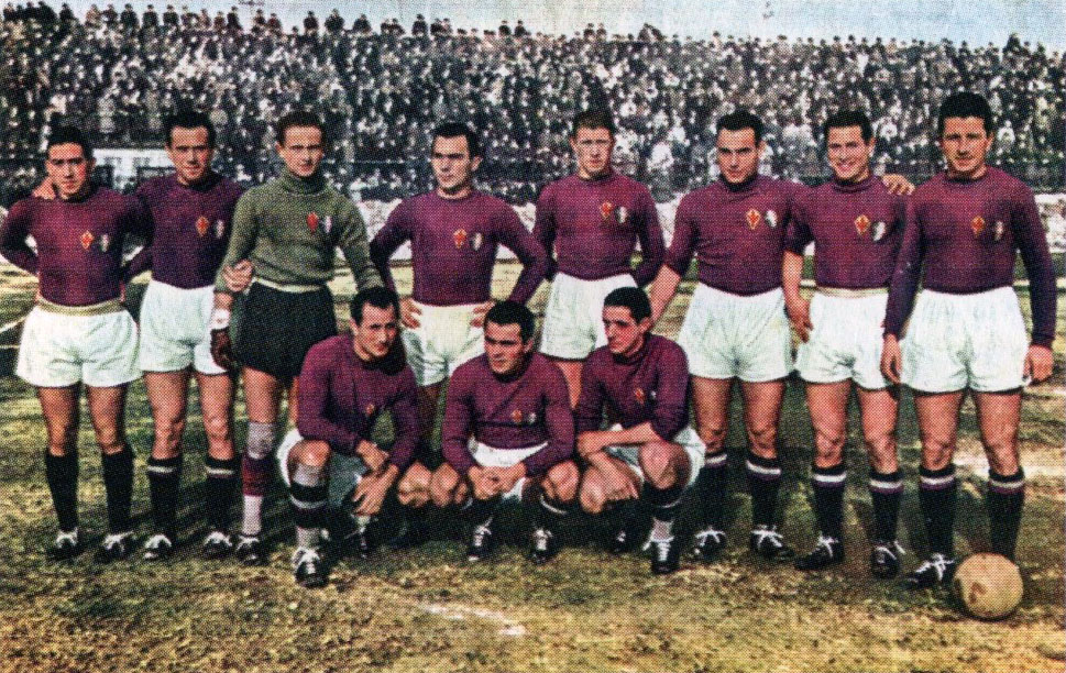 A line-up of A.C. Fiorentina in the 1940–41 season. From left to right, standing: R. Menti (III), G. Bigogno, L. Griffanti (captain), G. Baldini, F. Valcareggi, C. Piccardi, R. Penzo, G. Poggi (II); crouched: D. Di Benedetti, G. Ellena, G. Geigerle.